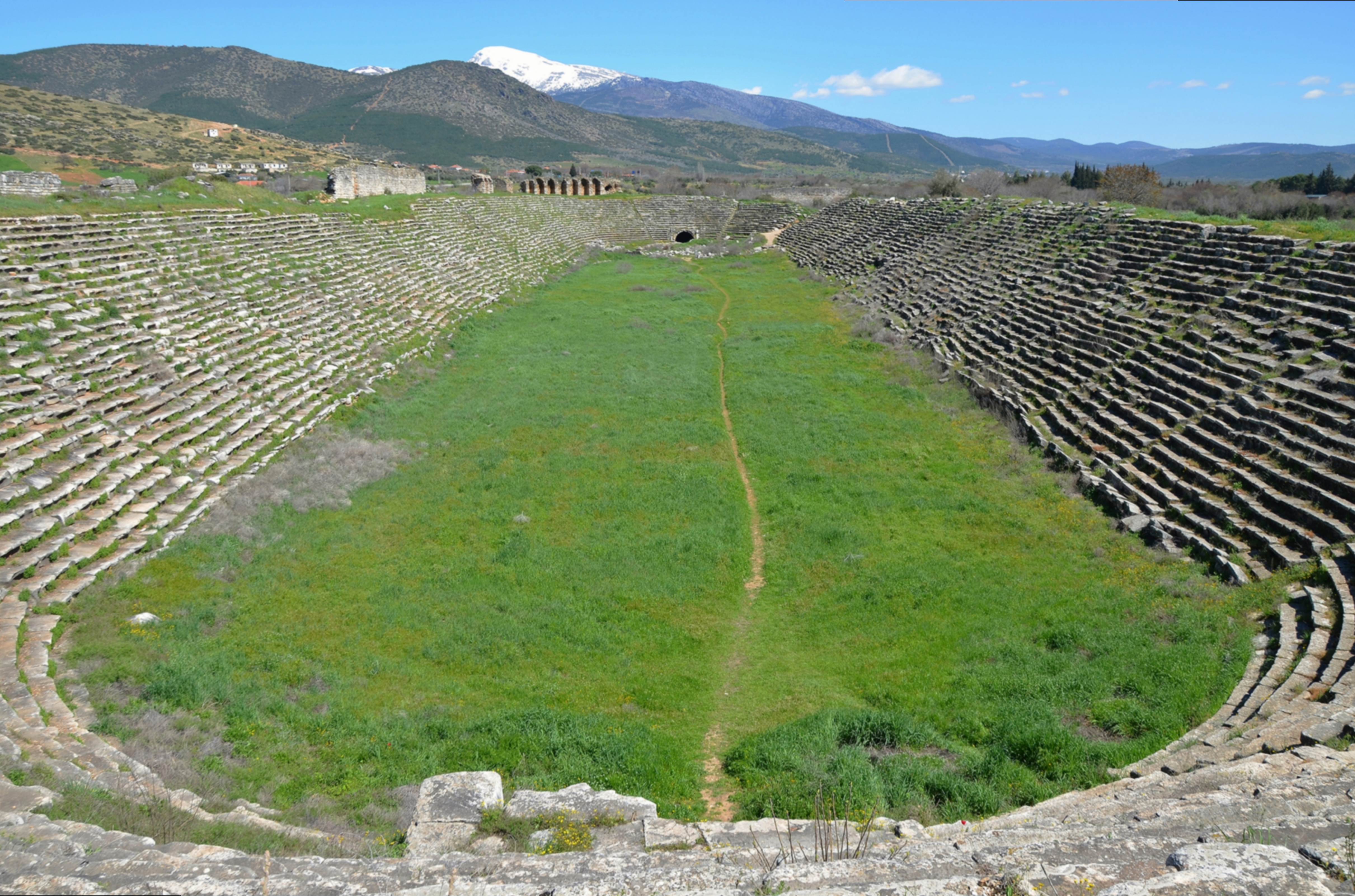 Located in the north end of the city, the Stadium is probably the best preserved and biggest of its type in Mediterranean. It is 262 m long and 59 m wide with 22 rows of seats. It has the capacity of 30.000 spectators. The ends of the stadium are slightly convex, giving the whole a form rather suggesting an ellipse. In this way, the spectators seated in this part of the stadium would not block each other's view and would be able to see the whole of the arena. The stadium was specially designed for athletic contests, but after the theatre was damaged in the 7th century earthquake the eastern end of the arena began to be used for games, circuses, wild beast shows and gladiatorial combats. During the Roman period the stadium was the scene of a large number of athletic competitions and festivals.